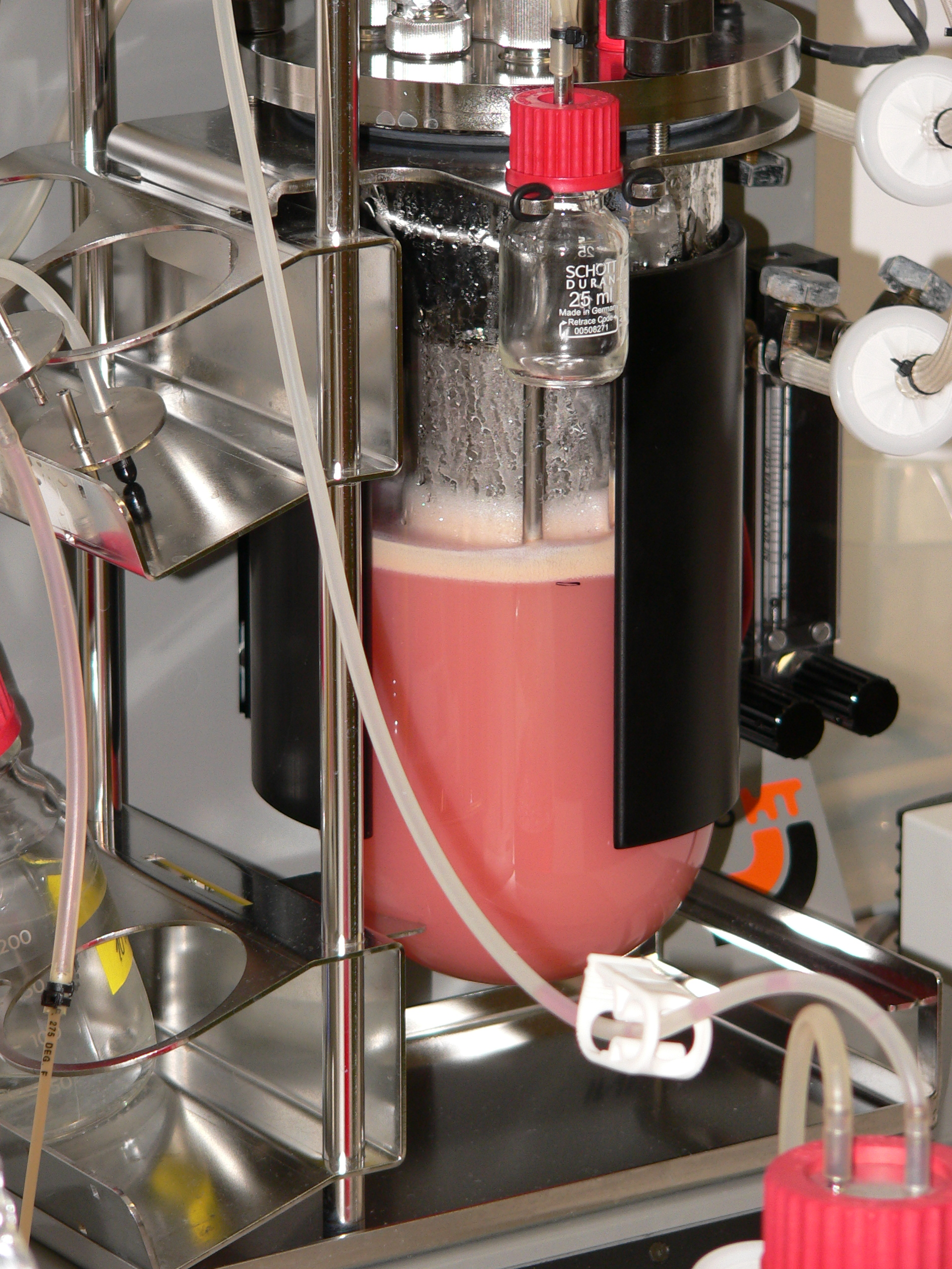 Cultivation of animal cells in benchtop bioreactor